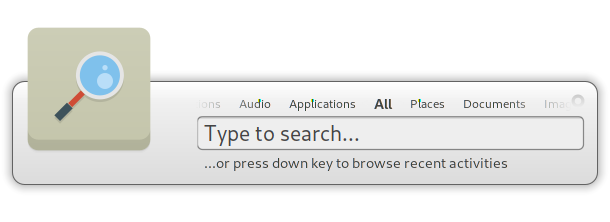 Synapse English Screenshot